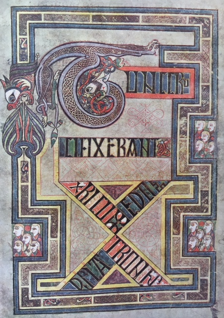 Out-of-copyright reproduction from 1914 of a copy of TCD MS 58 (the Book of Kells) folio 124r